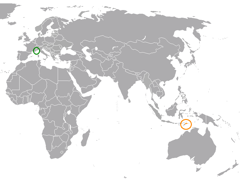 Map showing locations of both East Timor and Monaco